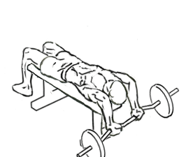 an exercise of triceps